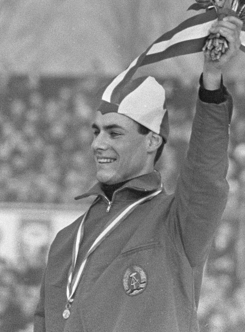 Horst_Freese. Deventer, European Championships